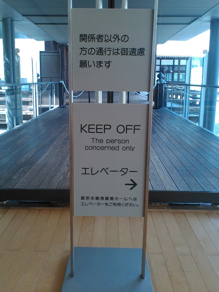 An Authorized Personnel Only sign at Higashi Hongan-ji Temple in Kyoto, Japan.